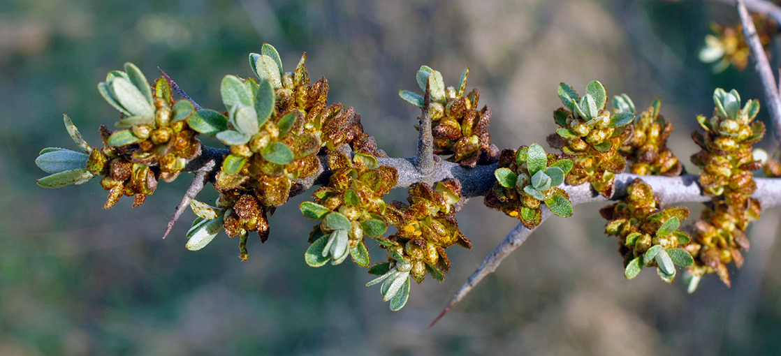 Flowers of a male sea-buckthorn